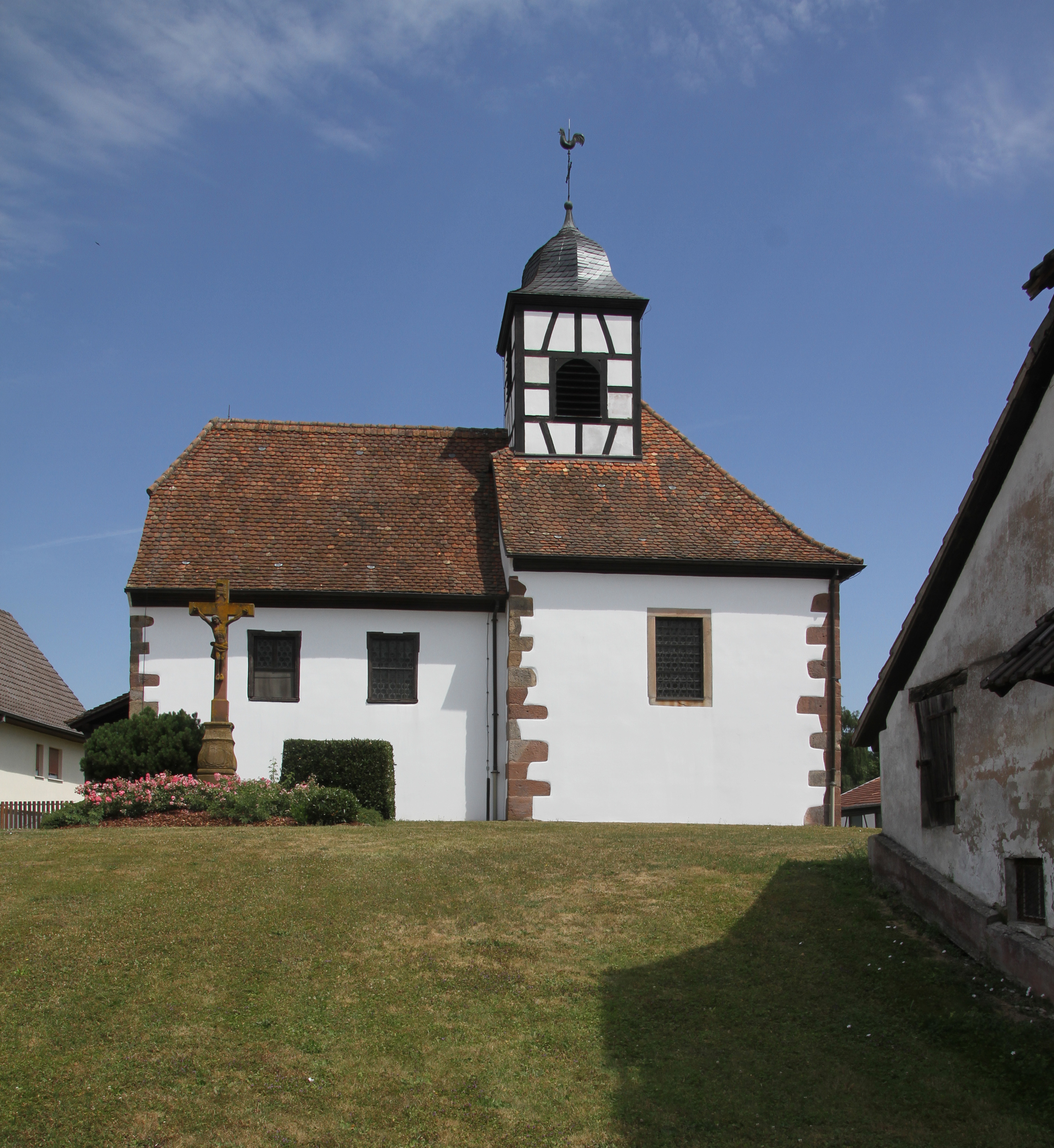 Protestant church in Leiterswiller.